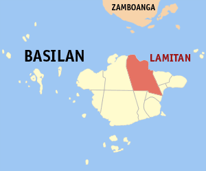 Map of the Basilan showing the location of Lamitan